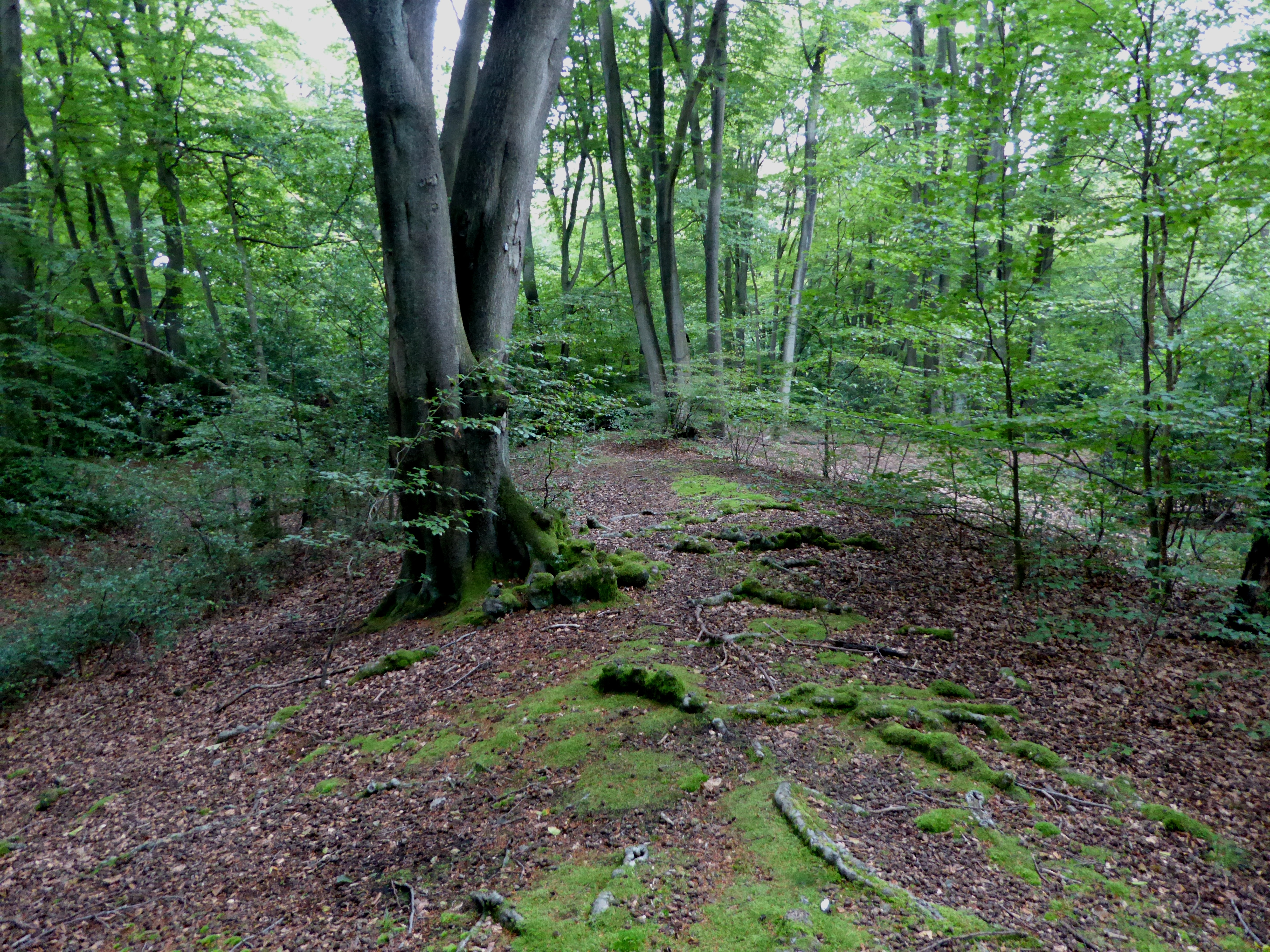 Photograph taken atop eastern bank of Loughton Camp in Epping Forest, Essex.